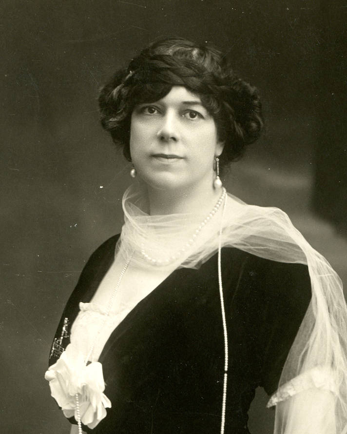 Singer Clara Butt. Subjects: singers